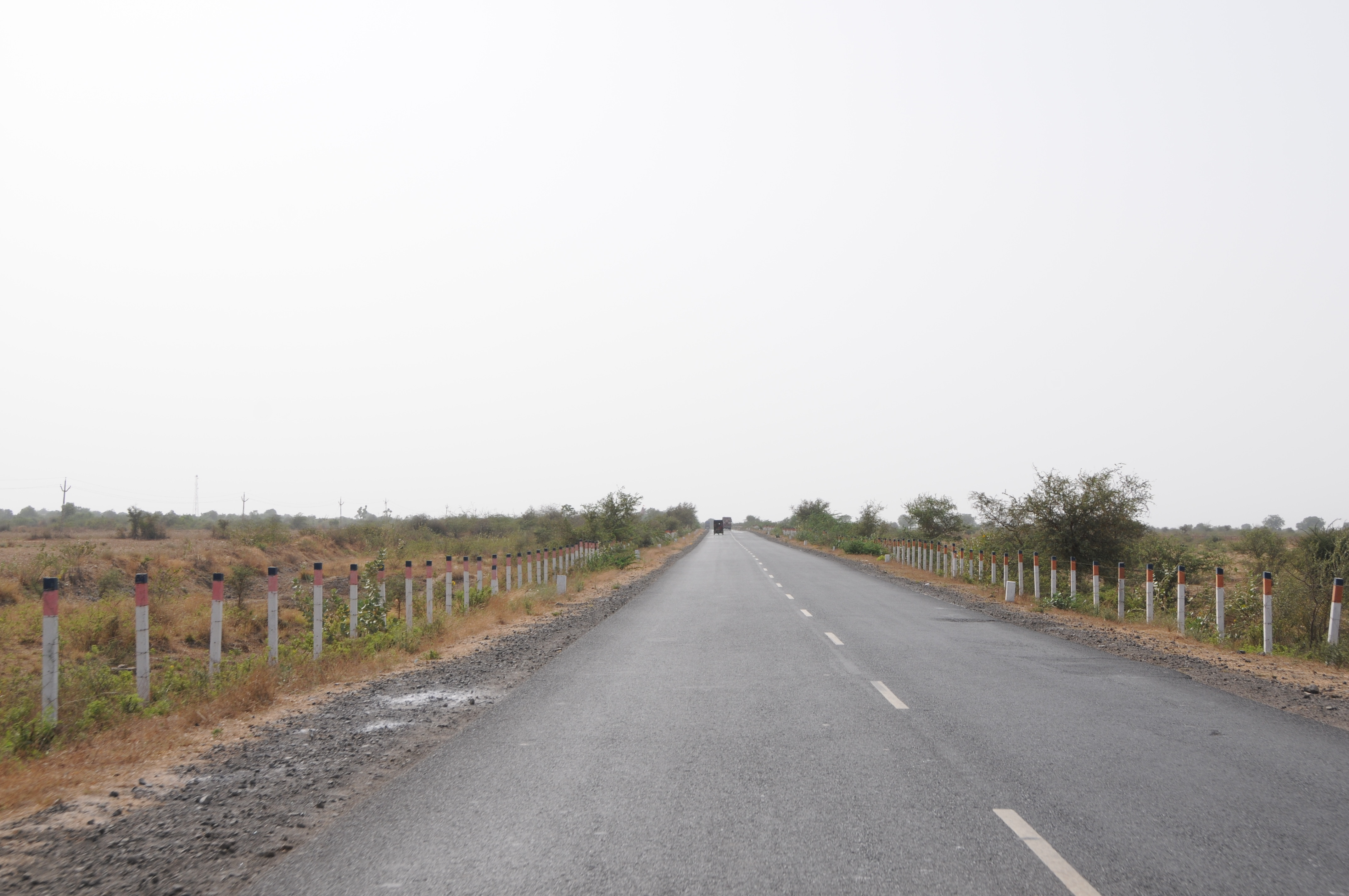 State highways of India Near Bhachau, Gujarat